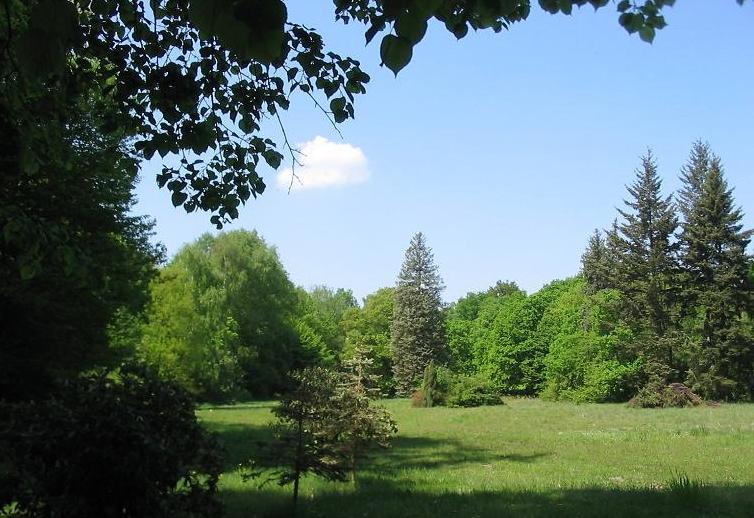 Garden from palace in Stülpe, a village (part) of the municipality Nuthe-Urstromtal in Brandenburg, Germany. The palace was built in 1754 by order of Adam Ernst von Rochow.